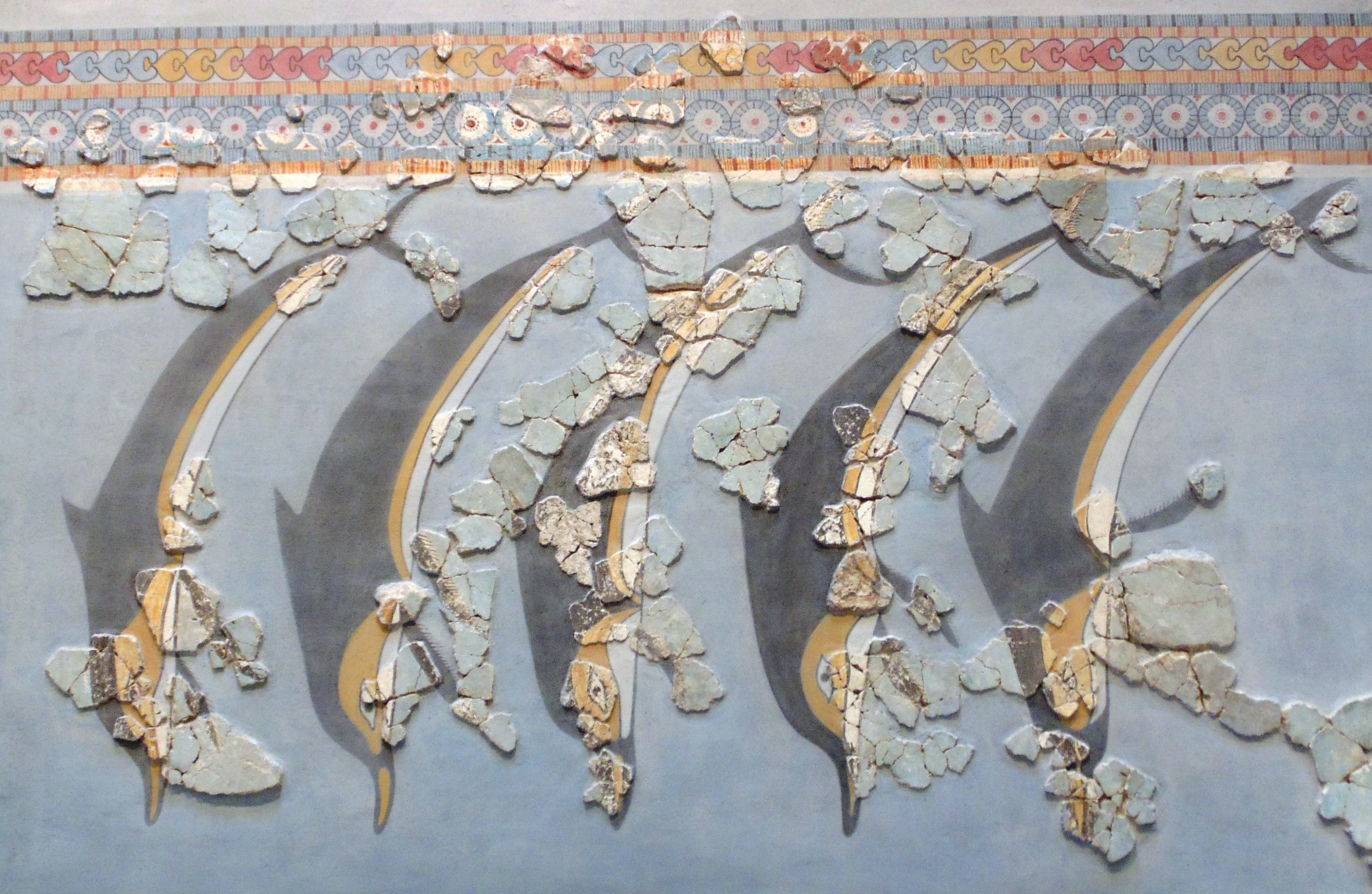 Dolphin frieze from the citalel of Gla, now Collection of Archaeological Museum of Thebes